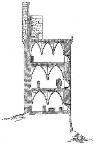 Cross-section of the Tour Philippe-le-Bel in Villeneuve-lès-Avignon. West is to the left, east to the right.